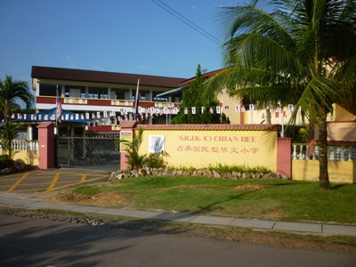 Chamek-Chinese Primary School